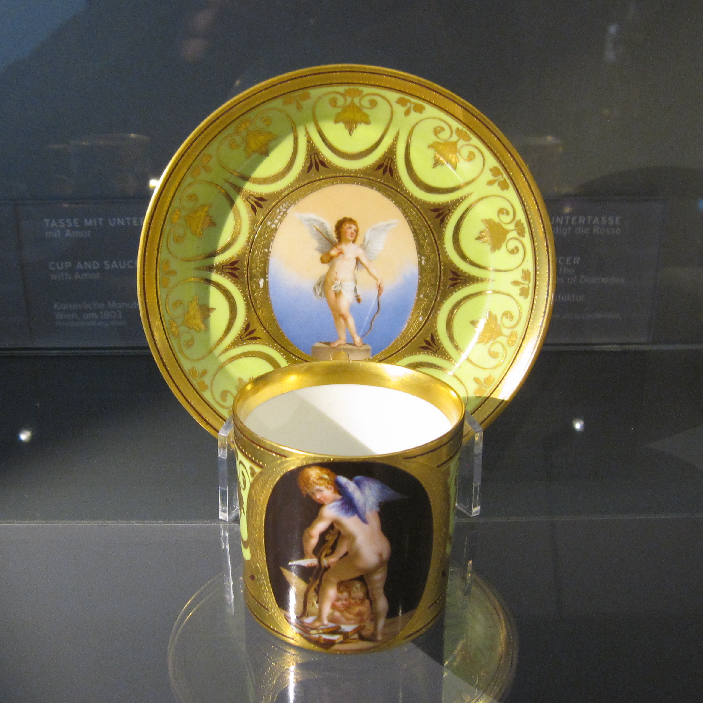 Cup and saucer with Cupid. Imperial Porcelain Manufactory. Vienna, around 1803. Private collection, Vienna.